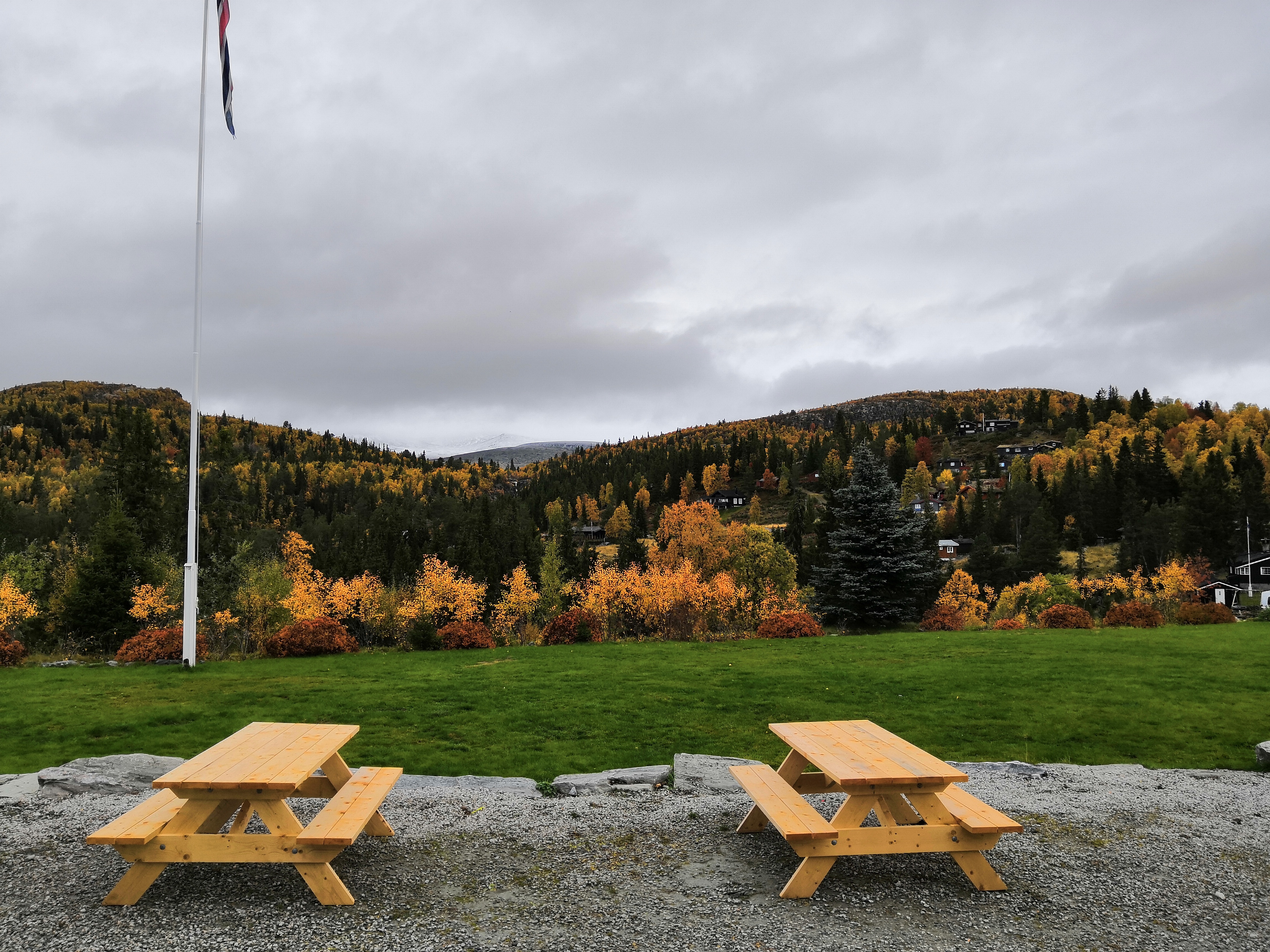 The view from the hotel